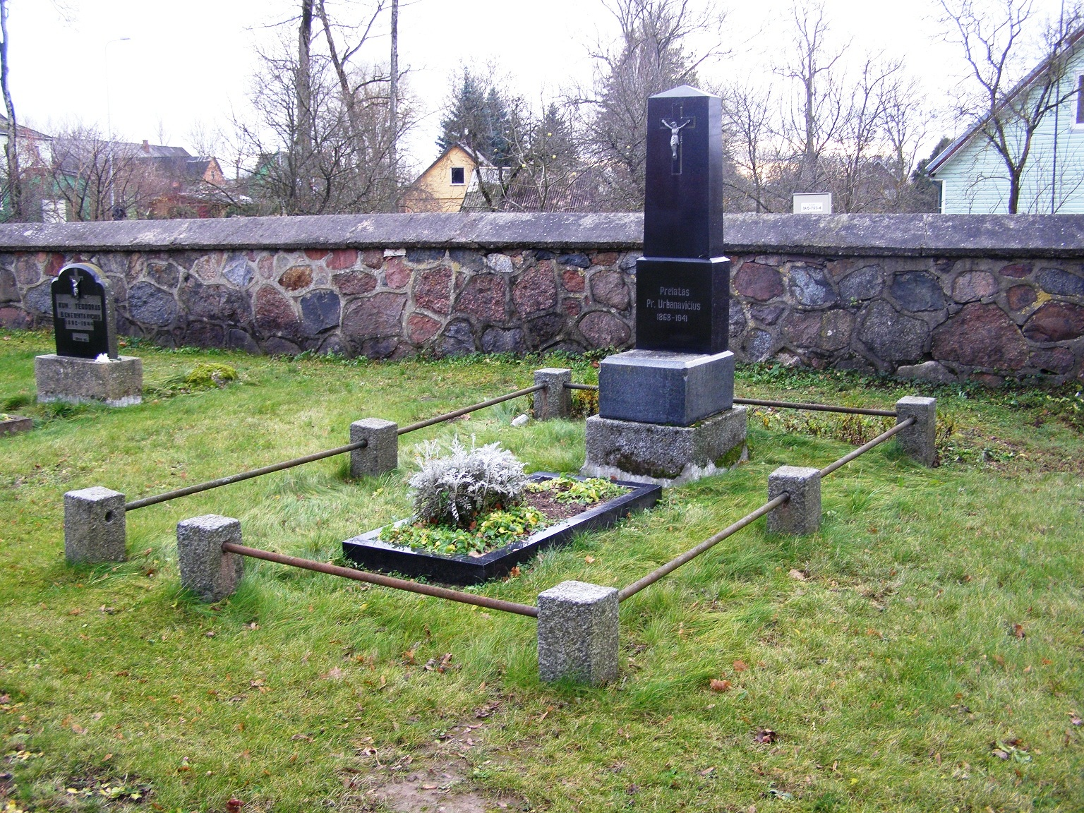 Salantai, Kretinga district, LithuaniaLietuvių: Salantai, prel. P. Urbanavičiaus kapas, Kretingos rajonas, Lietuva